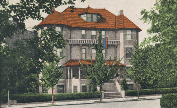 Carte Postale, depicting the Embassy of the Democratic Republic of Armenia in the USA